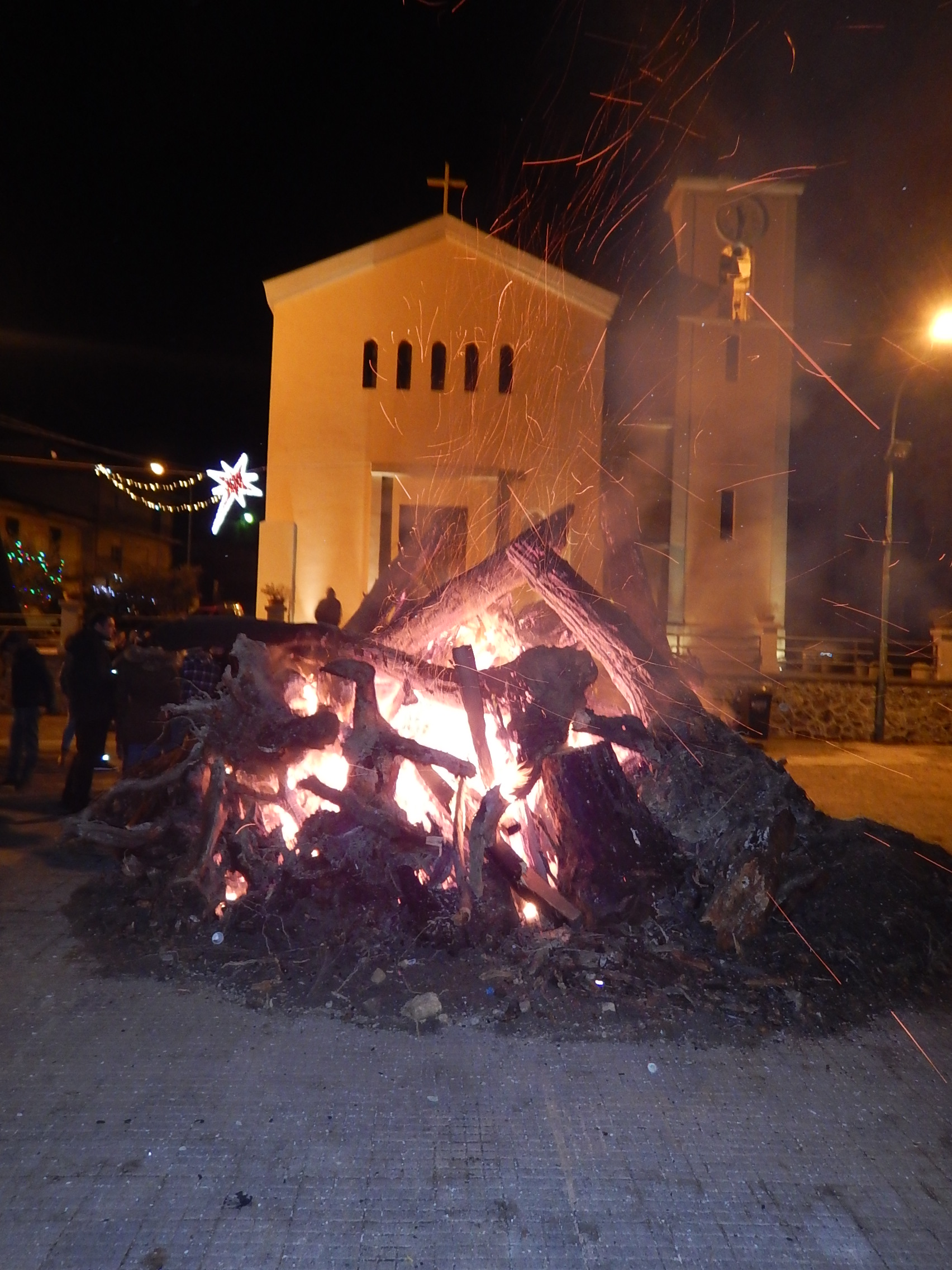 lumiaja the Christmas night at Fondachelli Fantina, Sicily.JPG